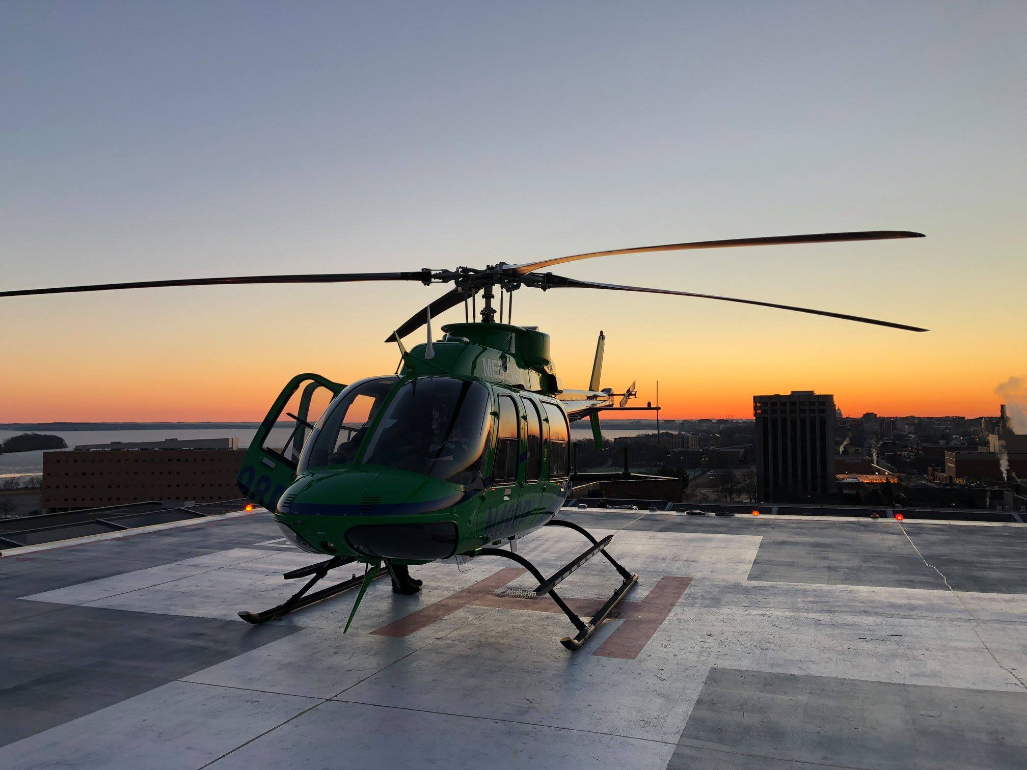 Aspirus Photo